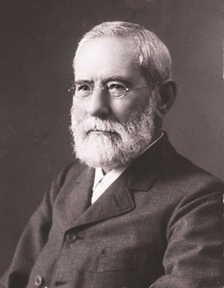 Oswald Schmiedeberg, medical doctor, pharmacologist